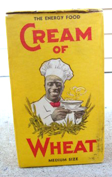 An old Cream of Wheat box, circa 1919